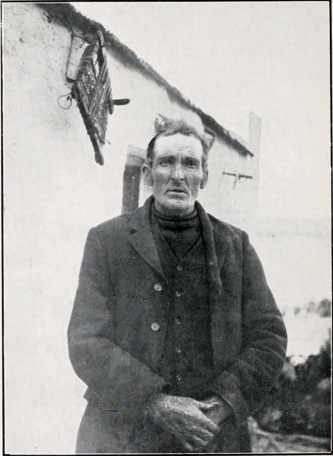 Tomás Ó Criomhthain, 1856–1937